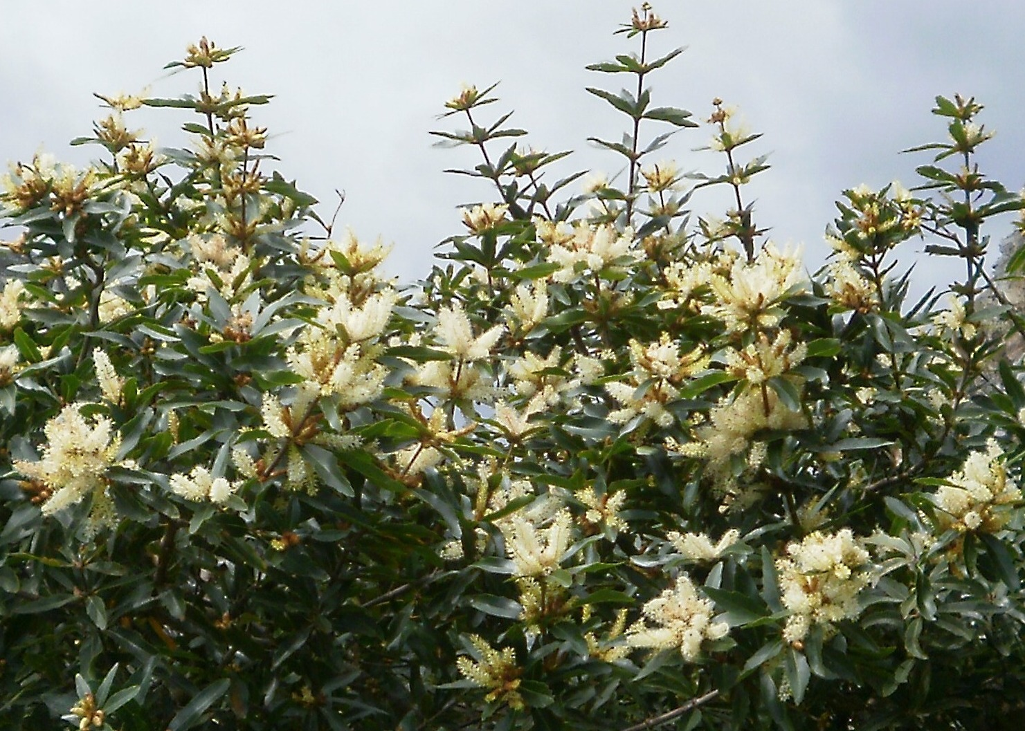 Flowers of the Cape Bitter Almond tree. Brabejum stellatifolium. Western Cape. South Africa.